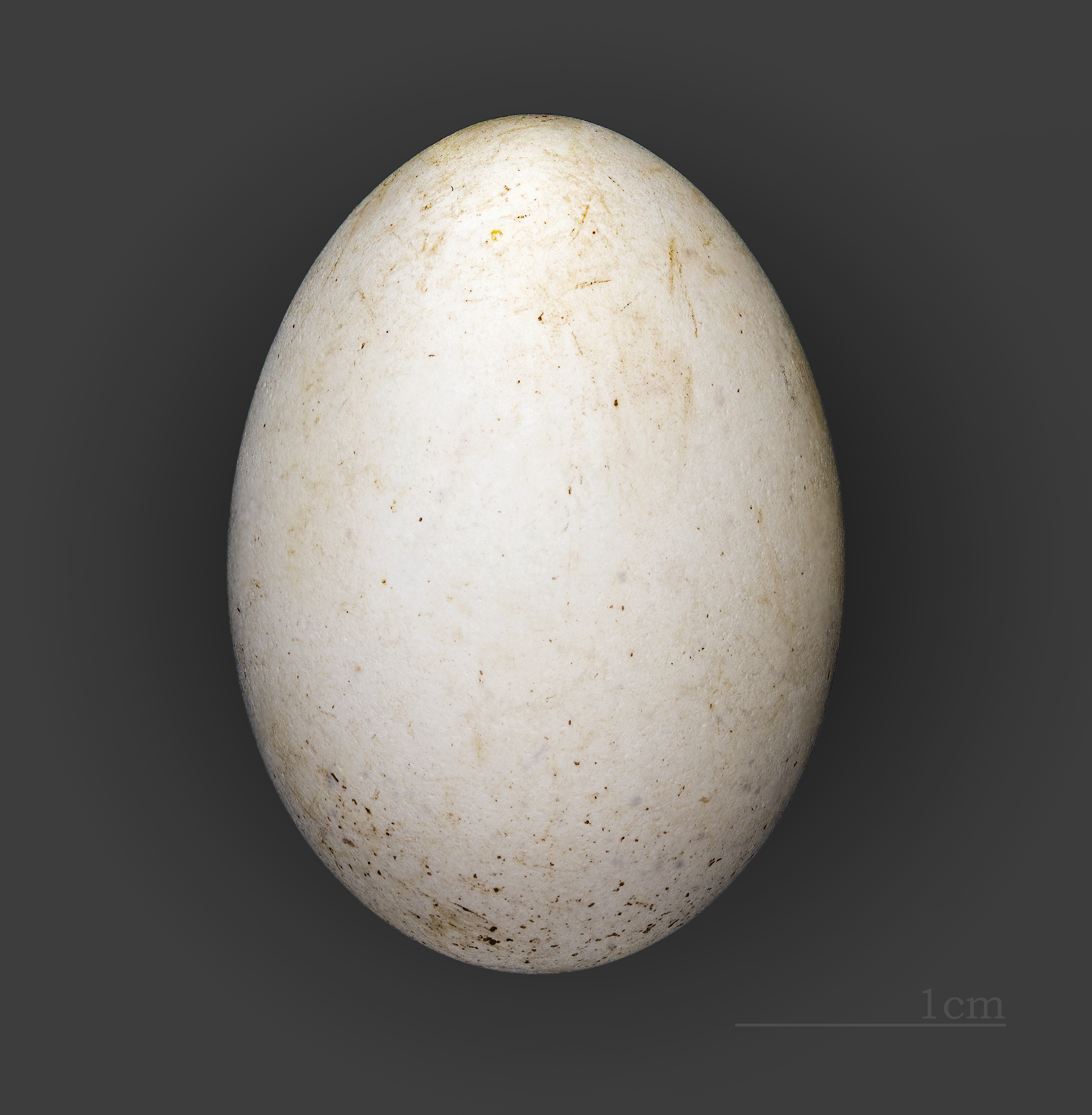 Egg of Leach's storm petrel. Collection of René de Naurois /Jacques Perrin de Brichambaut.